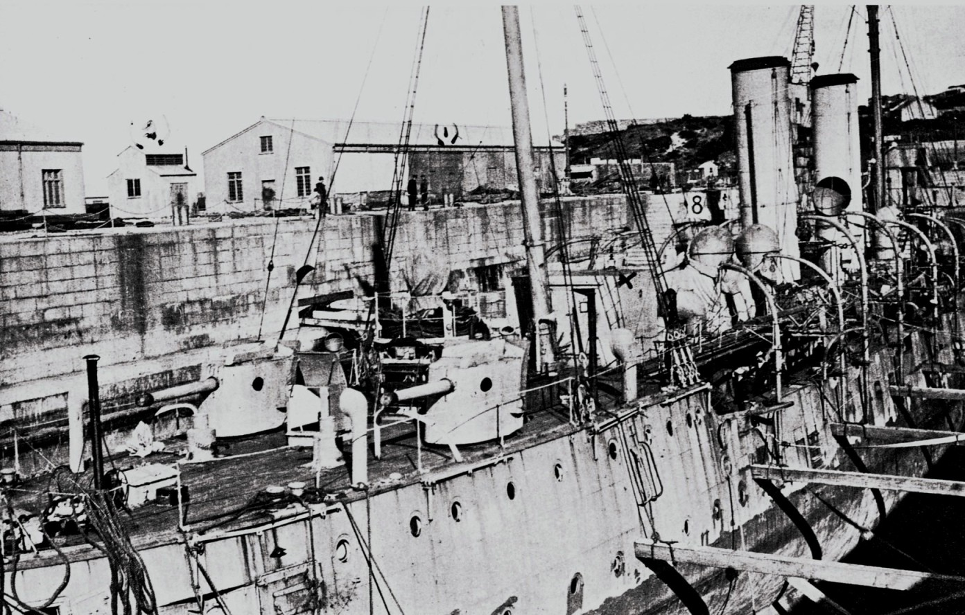 AWM caption : "SIMONSTOWN, SOUTH AFRICA. THE RAN CRUISER HMAS PIONEER IN DRY DOCK FOR CLEANING AND PAINTING. THE STRUCTURE (MARKED X) BEHIND THE MAIN MAST ON THE DECK WAS THE WIRELESS TELEGRAPH OFFICE. THE LARGE BUILDING ON THE DOCK HOUSED THE CREW WHILE THE SHIP WAS IN DOCK AND THE SMALL SHED BESIDE IT WAS USED AS THE KITCHEN." Comment : 2 4-inch guns enclosed by shields are seen on deck.